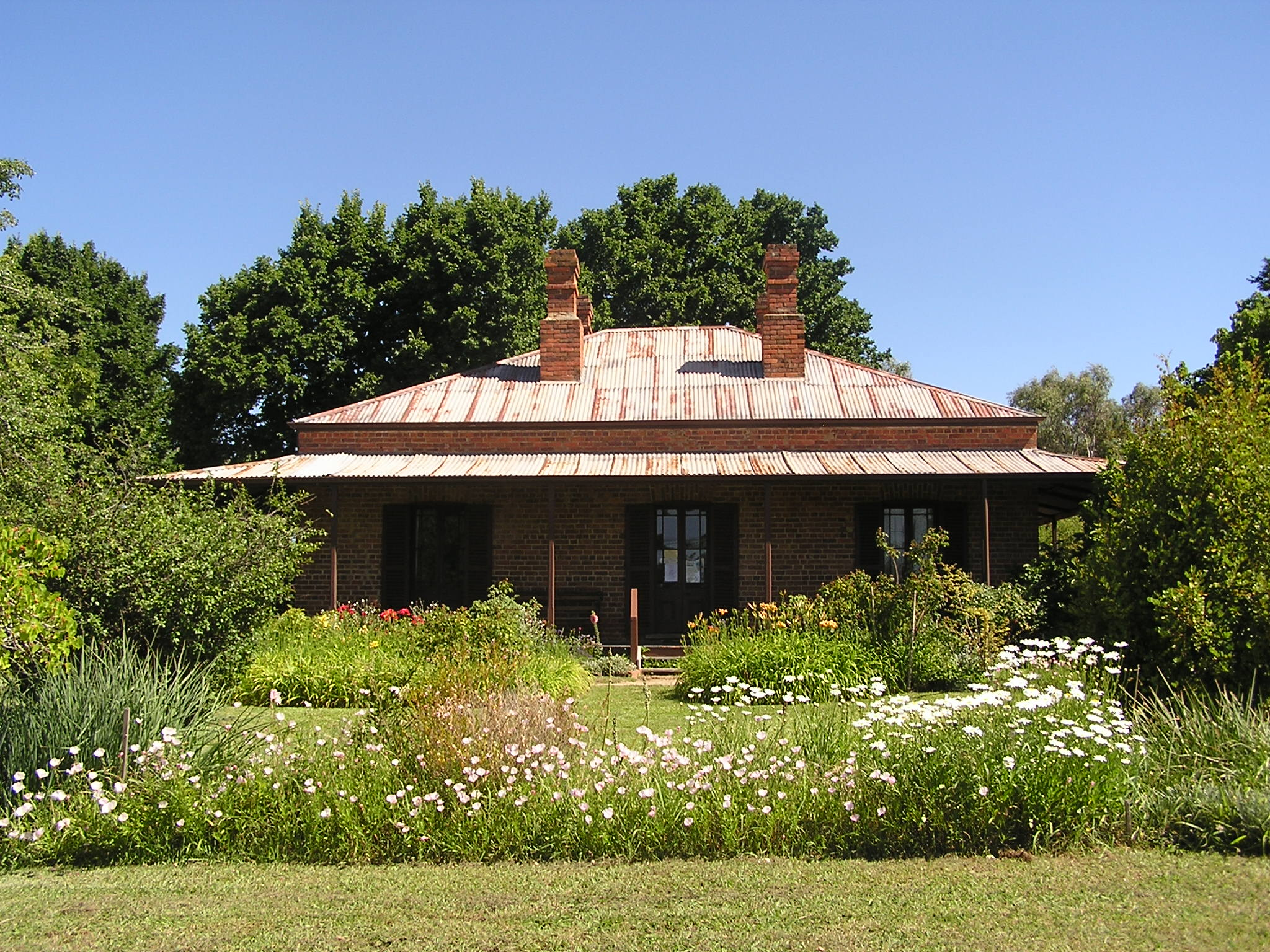 Lake View House at Chiltern, Victoria, Australia home of the author Henry Handel Richardson